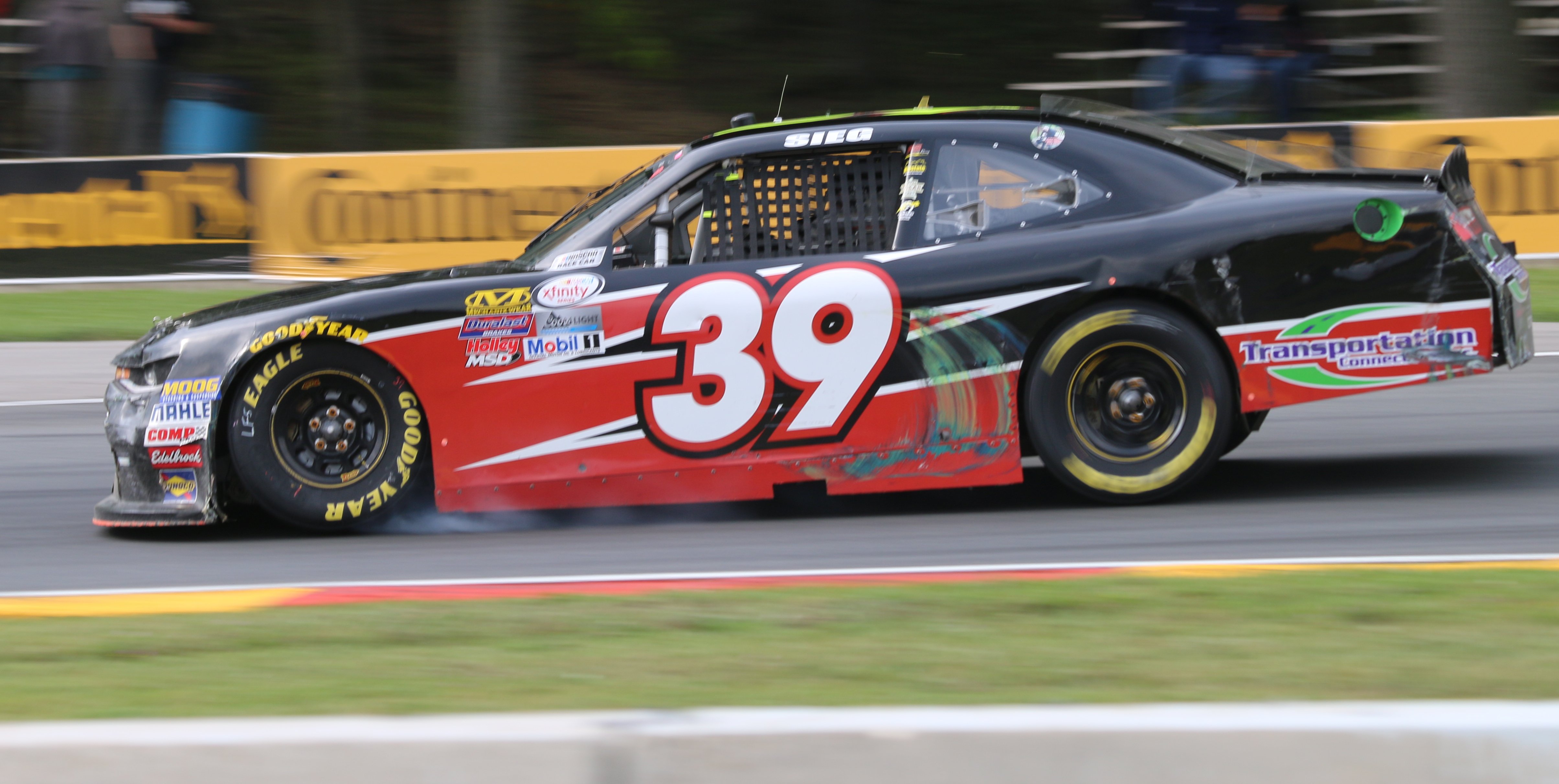 The Chevrolet Camaro of Ryan Sieg at the NASCAR Xfinity Series Johnsonville 180.